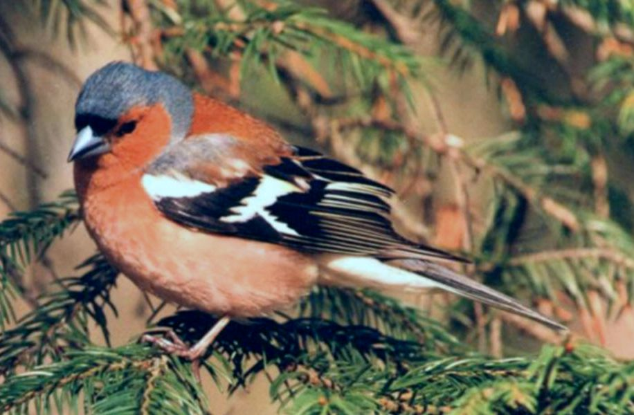 Fringilla coelebs ♂ (Buchfink-Chaffinch) "Redbreast on the branch of a spruce"